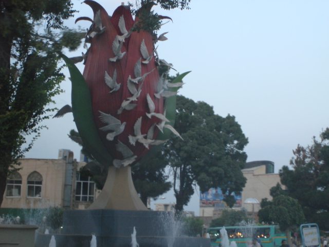 The oldest place of the Arak city